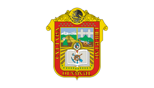 Flag of Mexico (state)